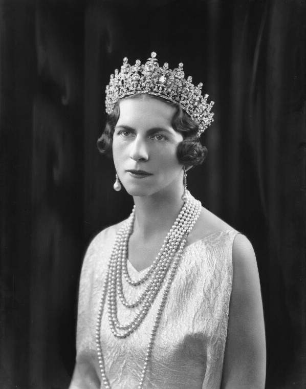 Helen, Queen Mother of Romania (1896-1982), Second wife of Carol II, King of Romania; daughter of Constantine I, King of Greece.